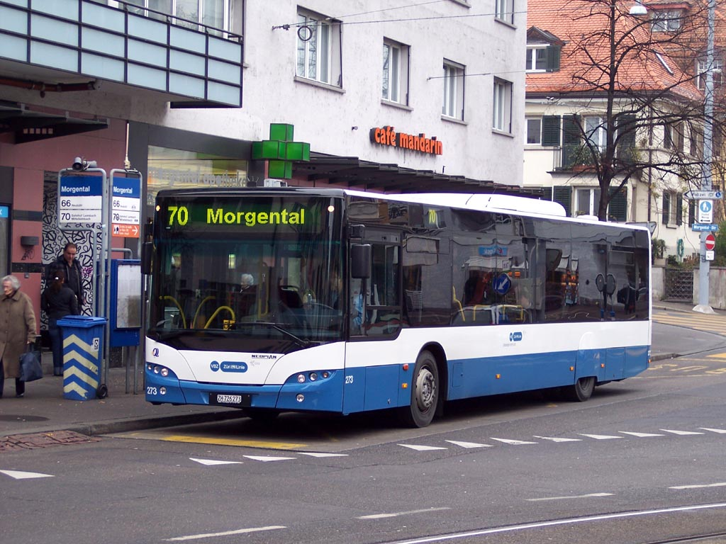 Neoplan Centroliner Evolution N 4516 (#273, reg. ZH 726273, built 2004) of Verkehrsbetriebe Zürich (VBZ), Zürich, Switzerland at Morgental.